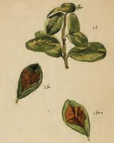 Stainton’s Natural History of the Tineina (1855–1873): Ectoedemia weaveri sprig of Vaccinium vitis-idaea, with a leaf showing a flat mine (1b); upperside of a leaf, with an inflated mine (1b*), and underside of the same leaf (1b**)